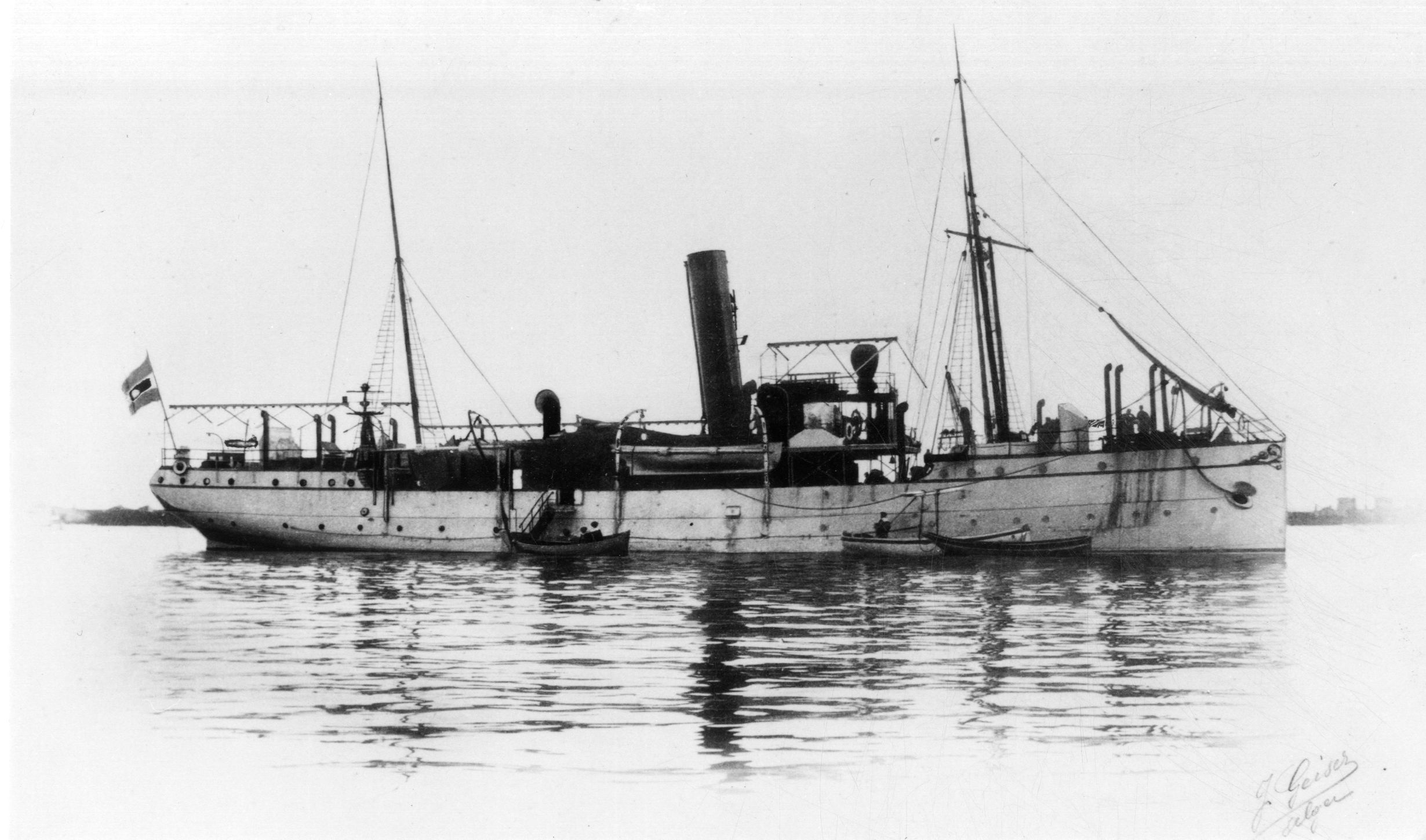 Photo of the gunboat Siboga, used for the Siboga Expedition